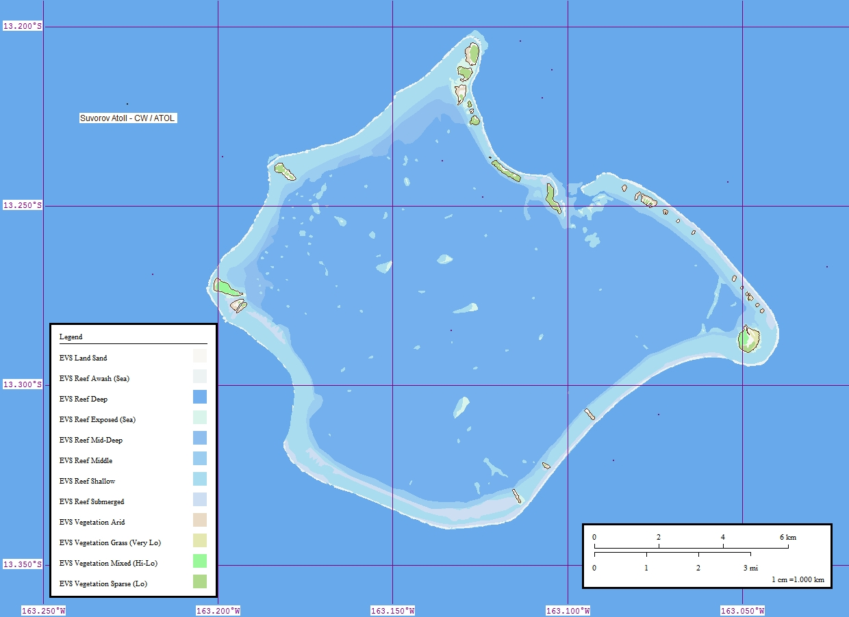 Map of Suwarrow atoll (Cook Islands)